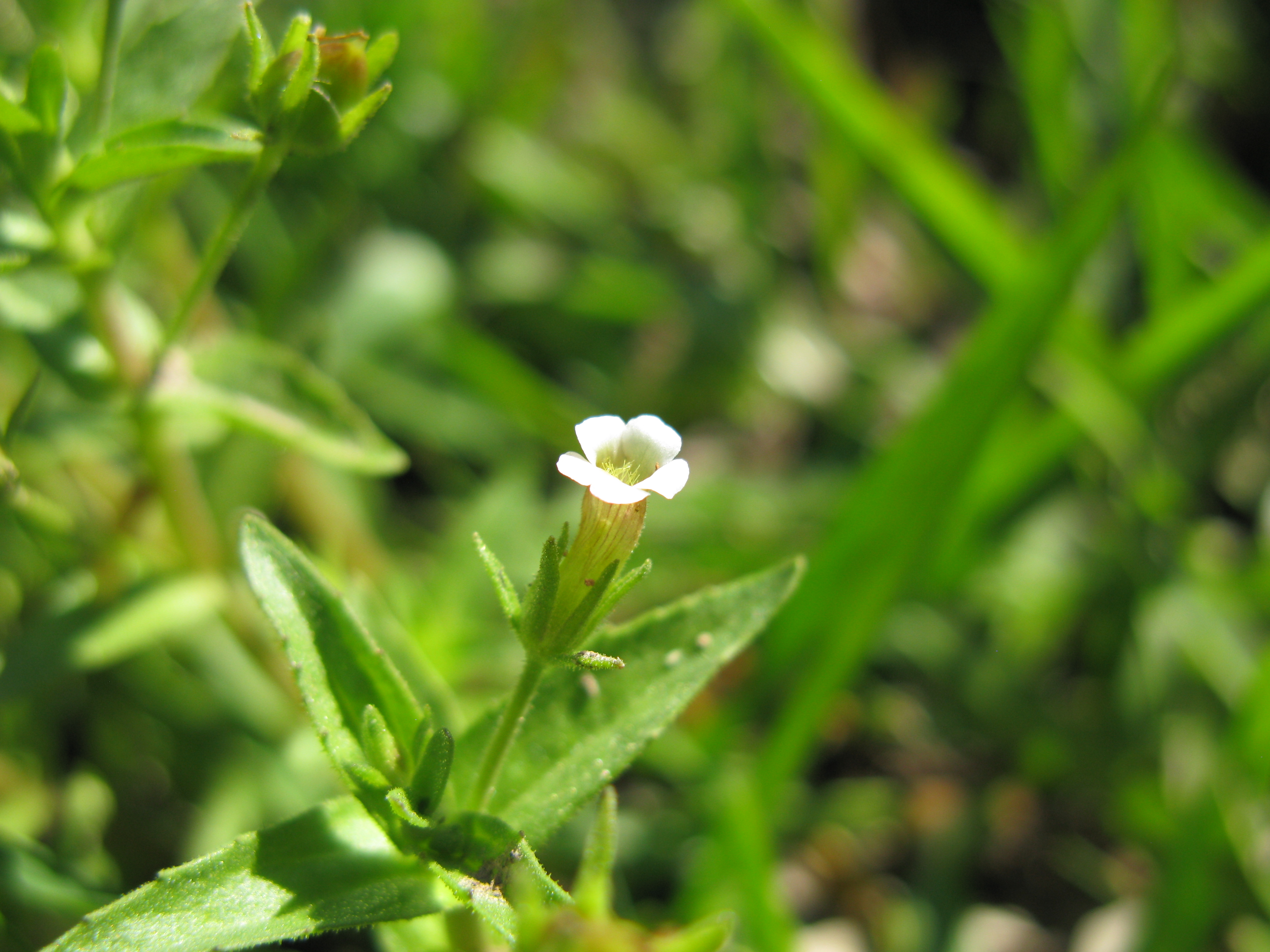 Native, warm season, perennial, erect to decumbent herb 13–50 cm tall, with glands on leaves, bracteoles and sepals, topped on all parts except the corolla by a glabrescent glandular indumentum. Stems have aerenchyma, often root at base and have a faint bad smell when crushed. Leaves are opposite, sessile, 3-veined, ovate to lanceolate, 0.8–3 cm long and stem-clasping; margins are toothed to nearly entire. Flowers are solitary, rarely 2, in bract axils, on pedicels 8–26 mm long. Corolla is tubular, obscurely zygomorphic 5–9 mm long, white to pink with yellow in the mouth. Flowering is in spring and summer. Grows in damp areas (e.g. stream and lagoon banks), such as the silted gully area above the dam in Dungog Common. Poisonous to livestock.